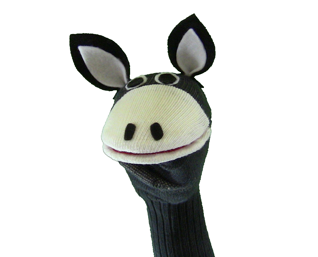 The donkey sock puppet from the web series Totally Socks